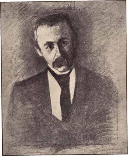 The Norwegian poet Sigbjørn Obstfelder (1866–1900). Drawing by Oda Krohg.